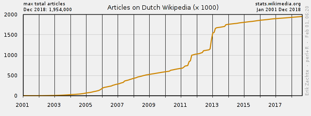 grow statistic dutch wikipedia